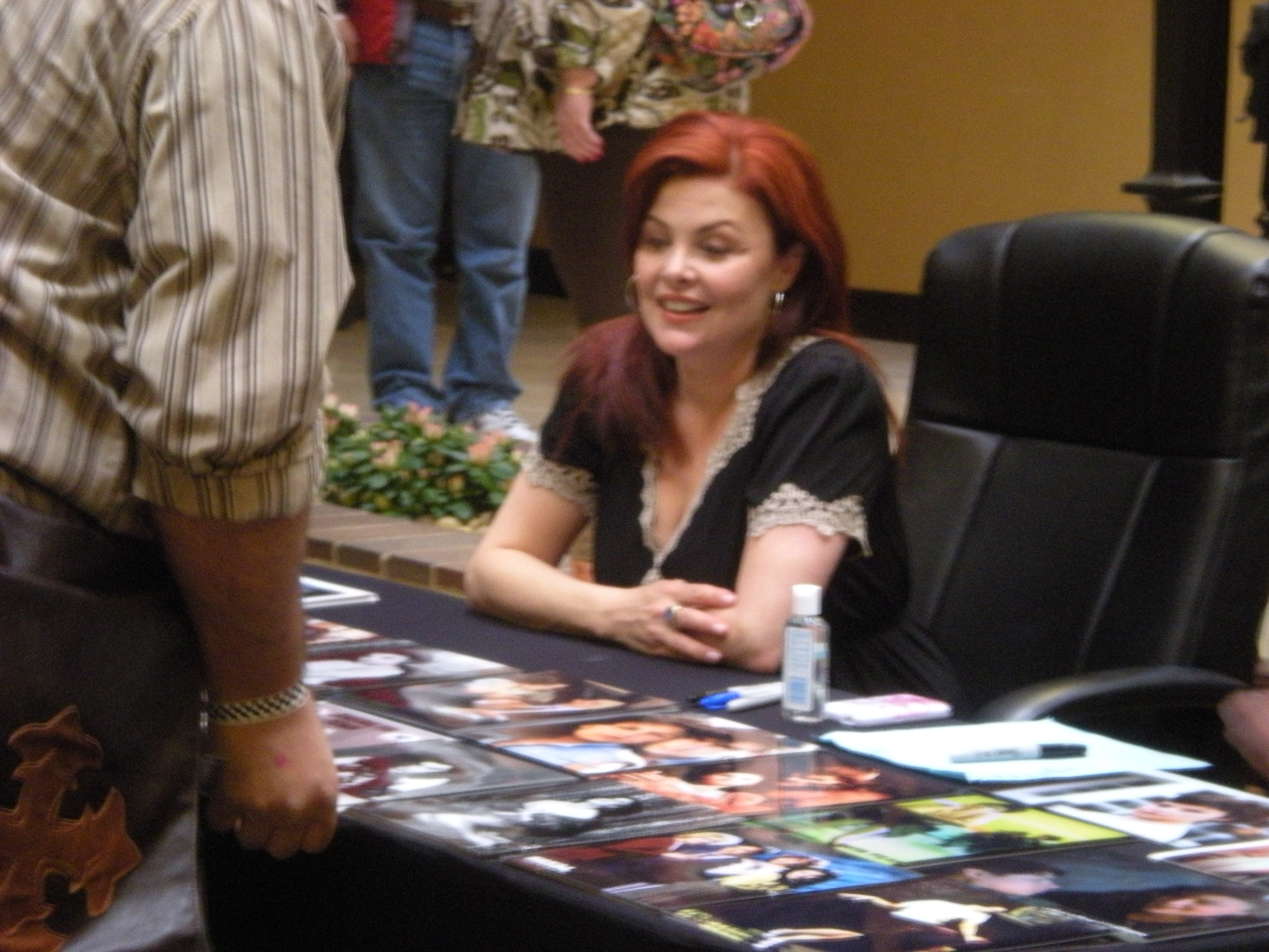 Sherilyn Fenn at Chiller Theater, 2010